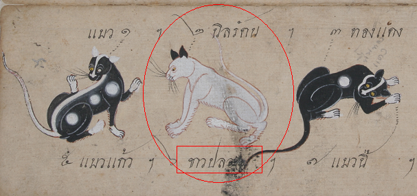 Erroneous information in the research There is a Kaow manee (white cat). But the picture is incorrect there is a Munila cat